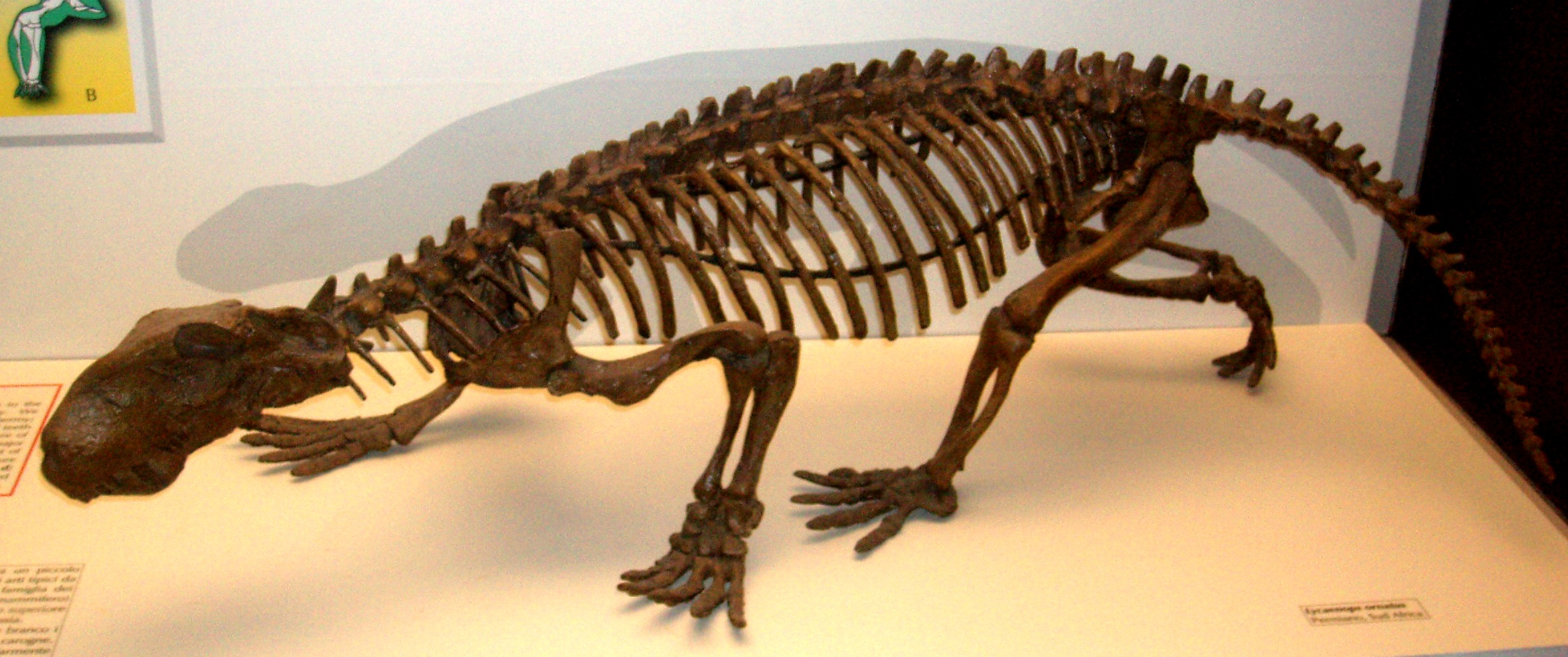 Fossil of Lycaenops ornatus, an extinct therapsid Date2008 - museo di storia naturale di milanoSourceOwn workAuthorGhedoghedo